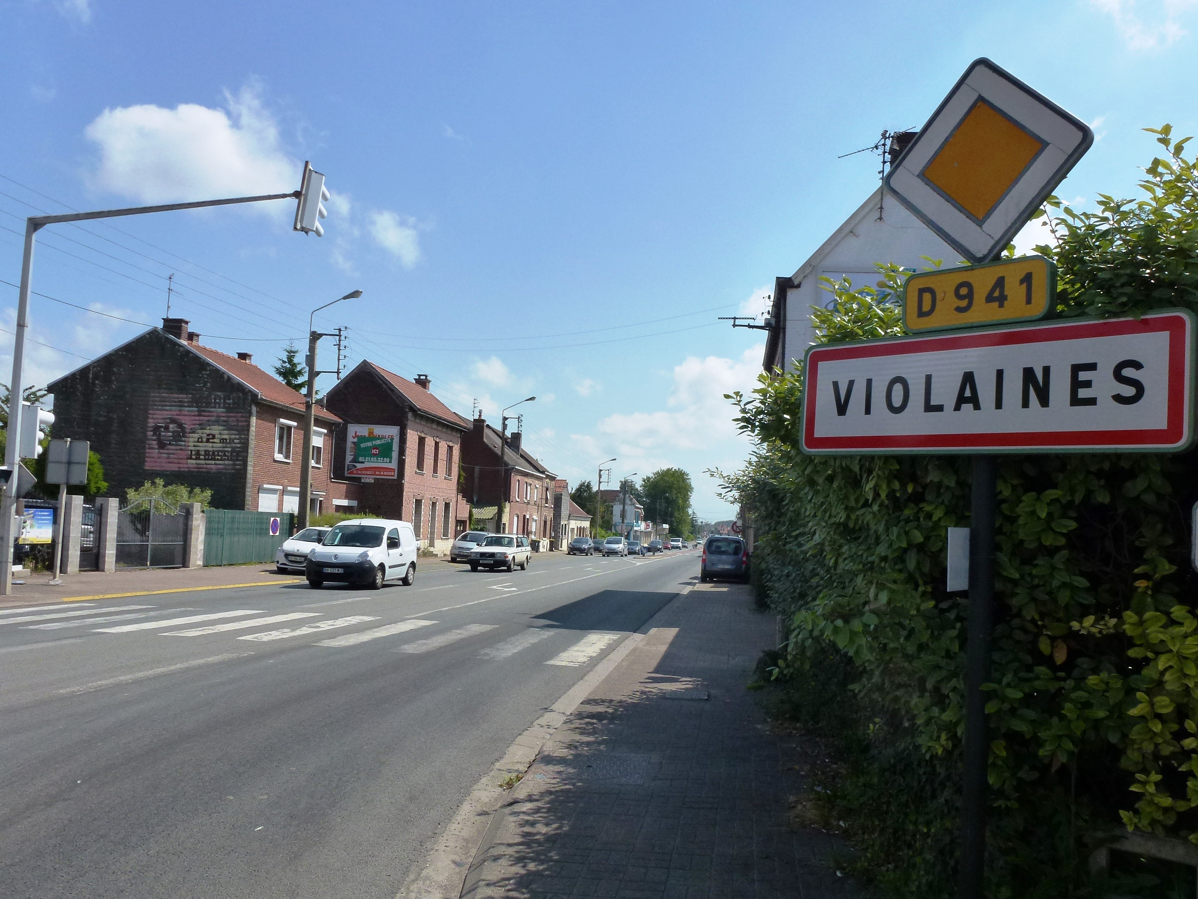 Violaines (Pas-de-Calais, Fr) city limit sign